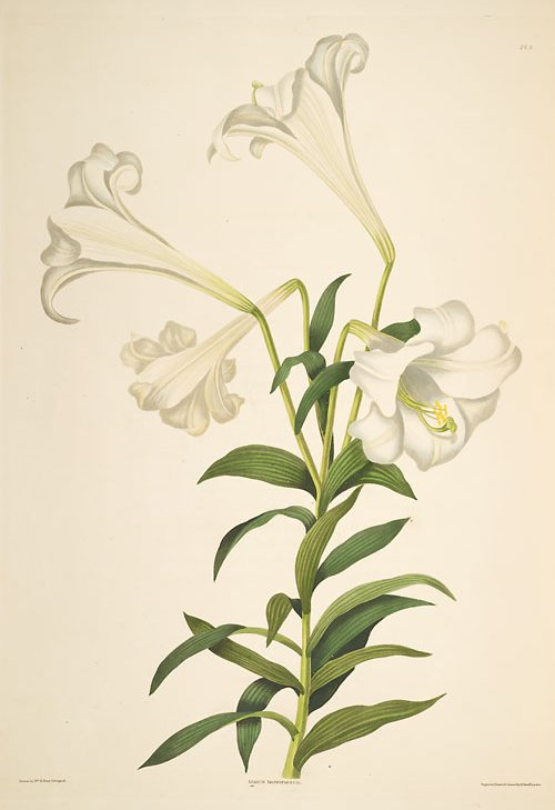 Easter lily (Lilium longiflorum)